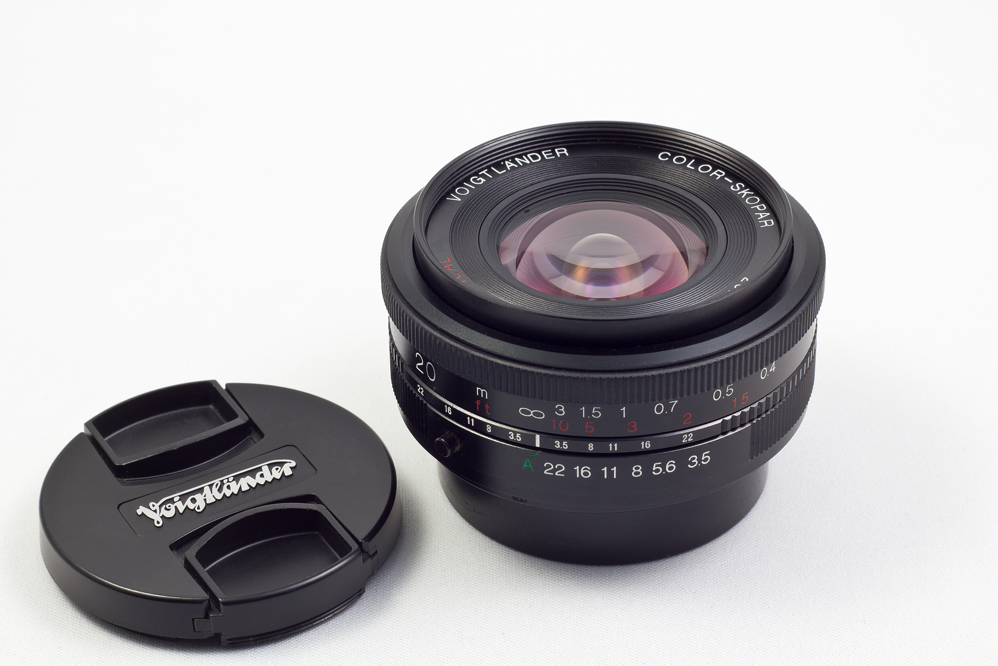 The manual focusing wide-angle lens Voigtländer 20mm f/3.5 Color Skopar SL II Aspherical. This sample, with aperture ring, is made for Pentax K-mount (produced only for a short period in 2009/2010; meanwhile discontinued). It is still available for Canon, Nikon only (as "... SL II N ..." with metal knurling focus ring). With a weight of 208 g and a length of 29 mm, it is a very light and compact "pancake lens". Voigtländer is a traditional German photo brand name, nowadays used by Japanese lens manufacturer Cosina.